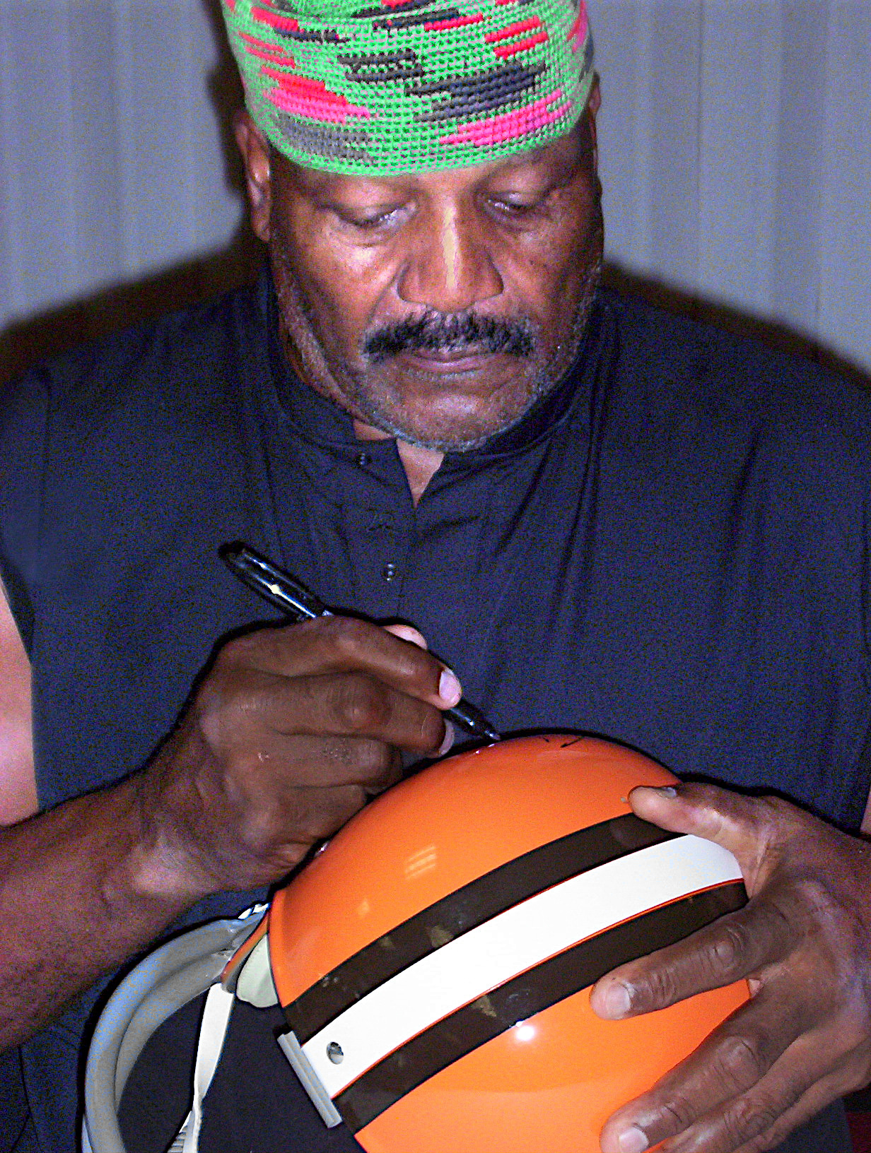 Jim Brown at autograph show in Los Angeles, CA in 2003.